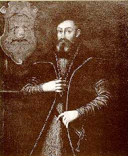 Contemporary portrait of the Neolatin poet Niccolò d'Arco (1492-1546)